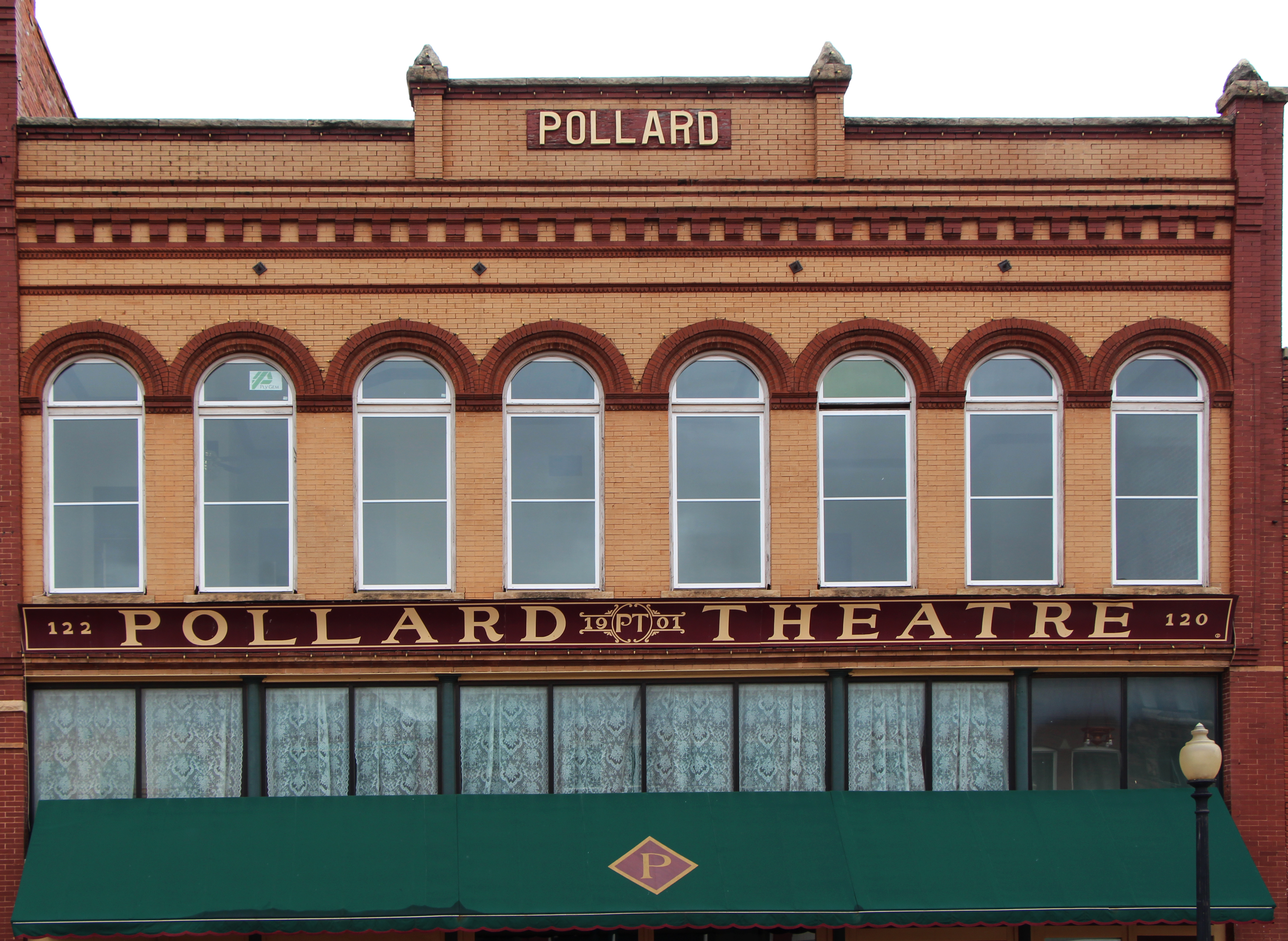 Patterson Building (now Pollard Theatre), Guthrie, Oklahoma